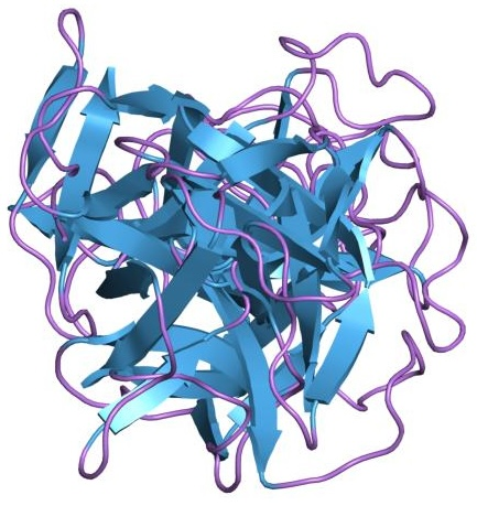 Cartoon representation of the molecular structure of protein registered with 1atx code.